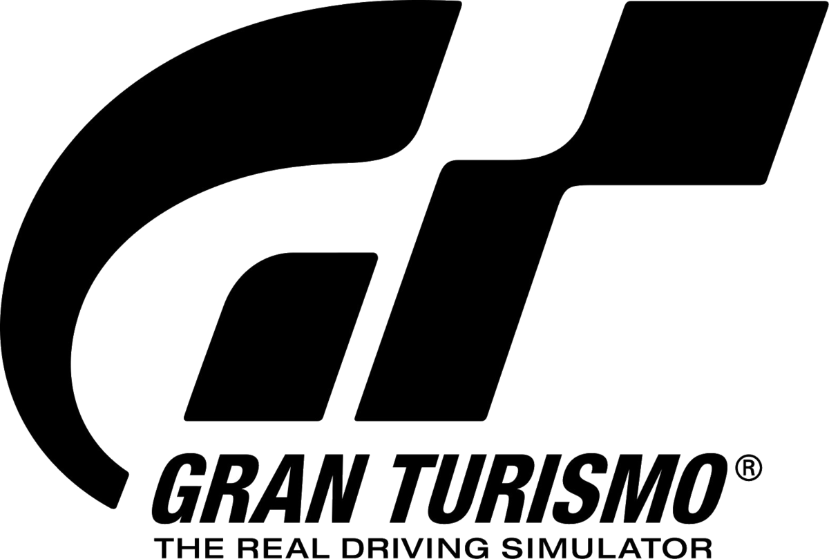 Gran Turismo series logo